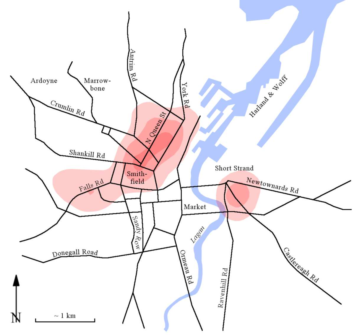 Conflict deaths of the Troubles 1920-1922 in Belfast, areas with more than 50/100/150 deaths per km²